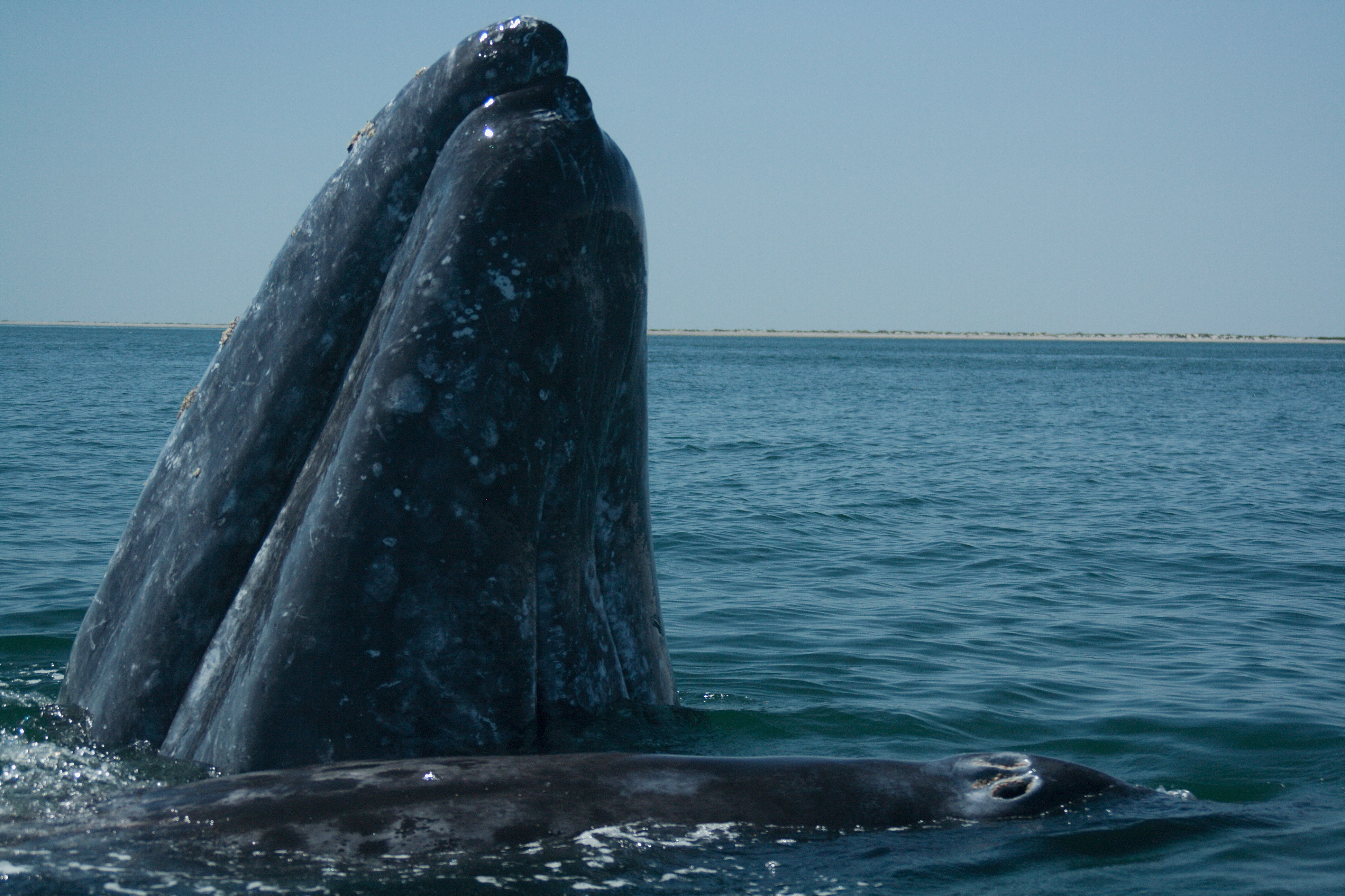 Una ballena gris adulta y su cría se acercan a los turistas. / An adult gray whale and its calf approach tourists.